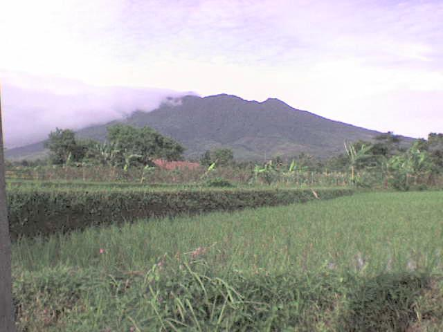 Photo of Mount Salak